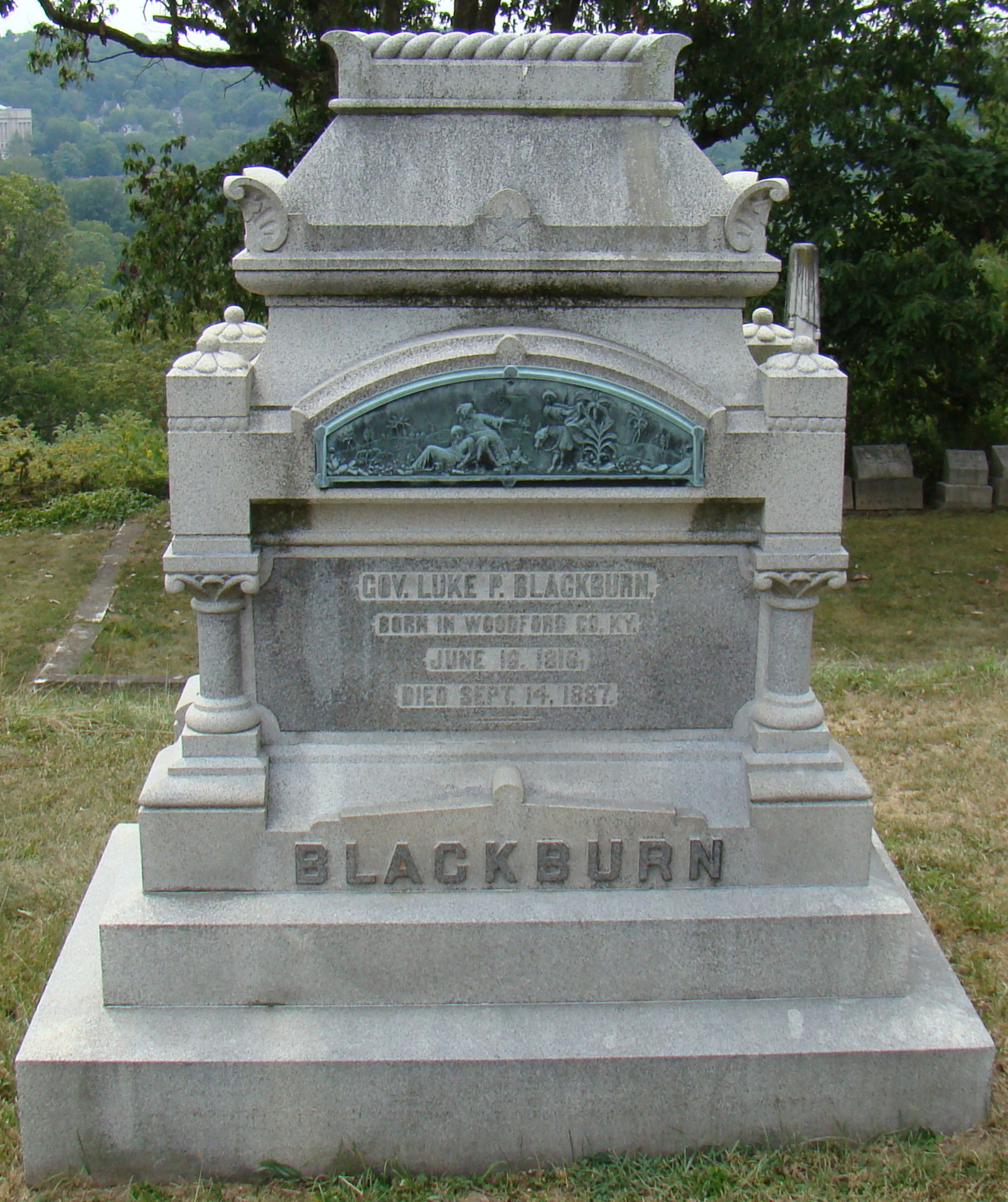 Governor Luke P. Blackburn's gravestone in Frankfort Cemetery in Frankfort, Kentucky. Blackburn was the 28th Governor of the Commonwealth of Kentucky, USA.